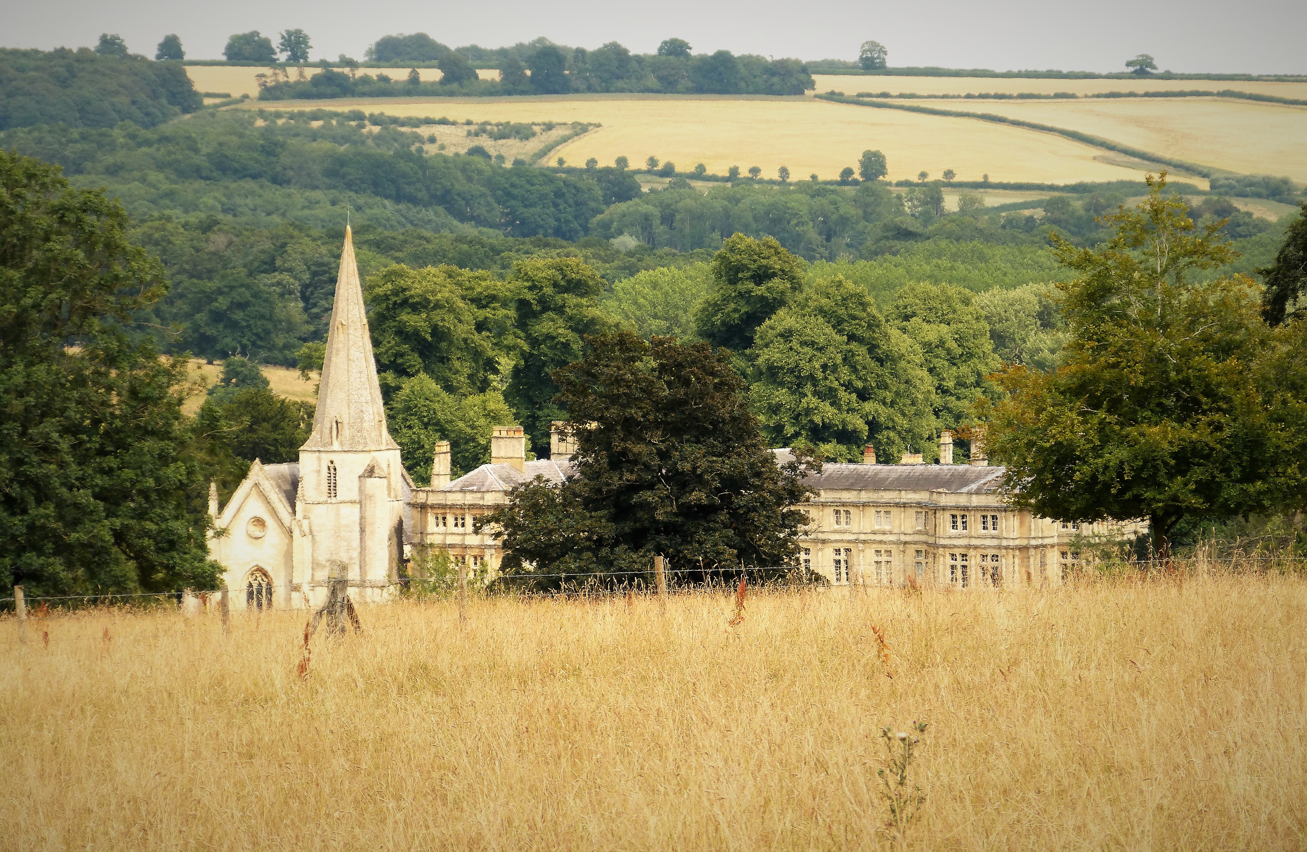 National Trust Sherborne Estate, Glos. S19/07/2018. SP179146